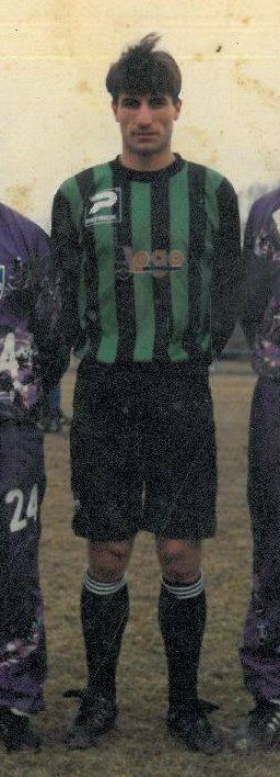 Memiš Limani, NK Nafta Lendava